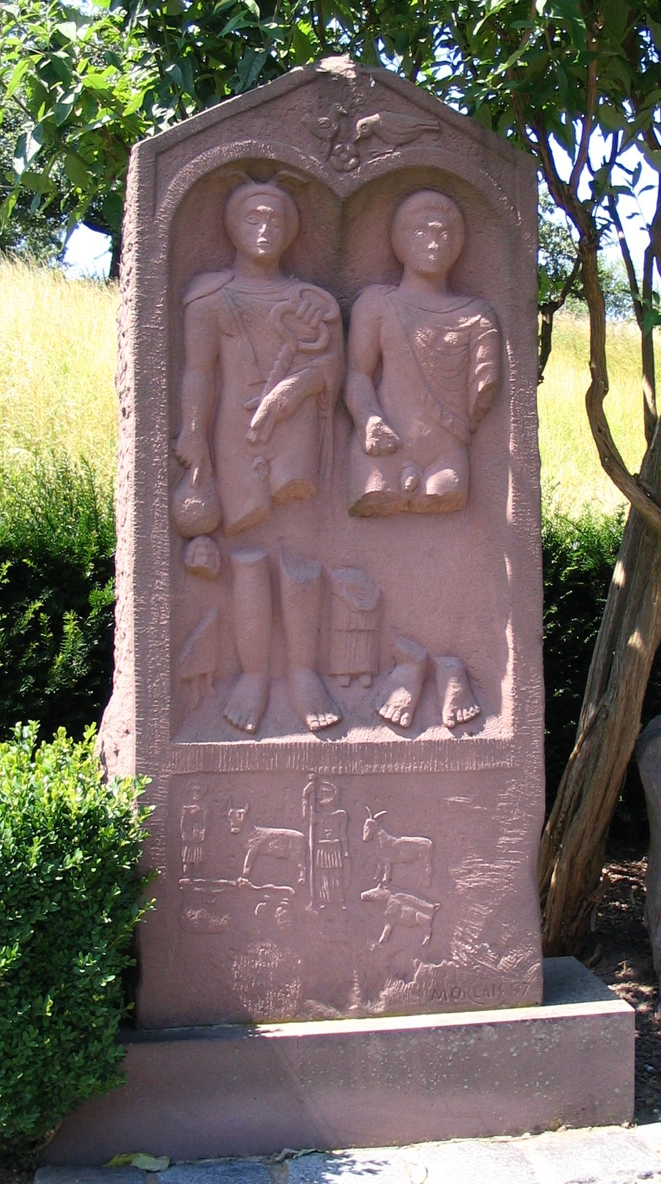 Reproduction of the Römischer Dreigötterstein (Latin three-gods-stone) in Straubenhardt, Germany with the pictured gods Mercury (left), Apoll (right) and Minerva (bottom)